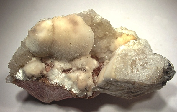 Xonotlite, Inesite Locality: Wessels Mine (Wessel's Mine), Hotazel, Kalahari manganese fields, Northern Cape Province, South Africa (Locality at ) Gorgeous combination piece with radial fibrous Inesite and Xonotlite. Lovely and important any way you look at it. The luster of the Inesite is far better than the pics show. 5.7 x 5.1 x 3.9 cm